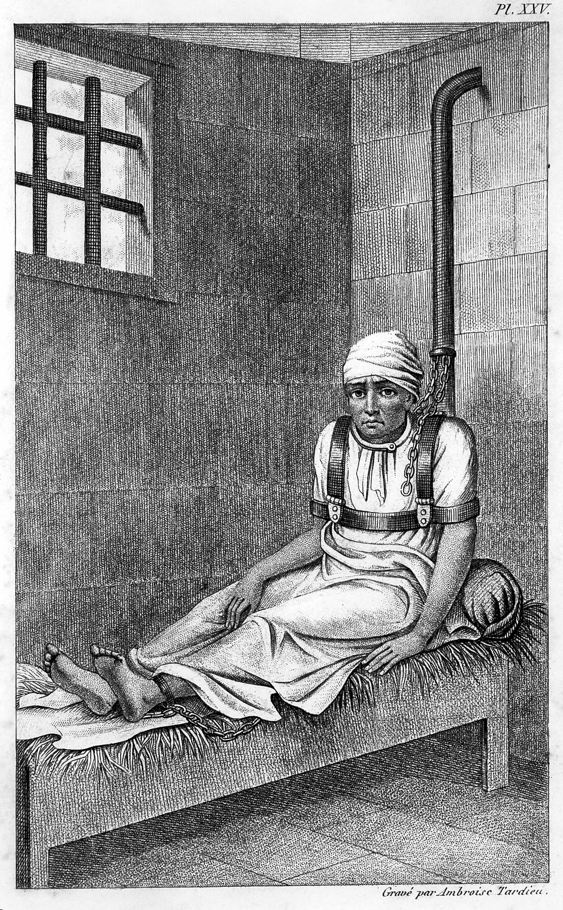 William Norris, shackled sitting upright on his bed at Bedlam. Rare Books Keywords: medicine, psychiatric; mental diseases; mental hospitals; Ambroise Tardieu